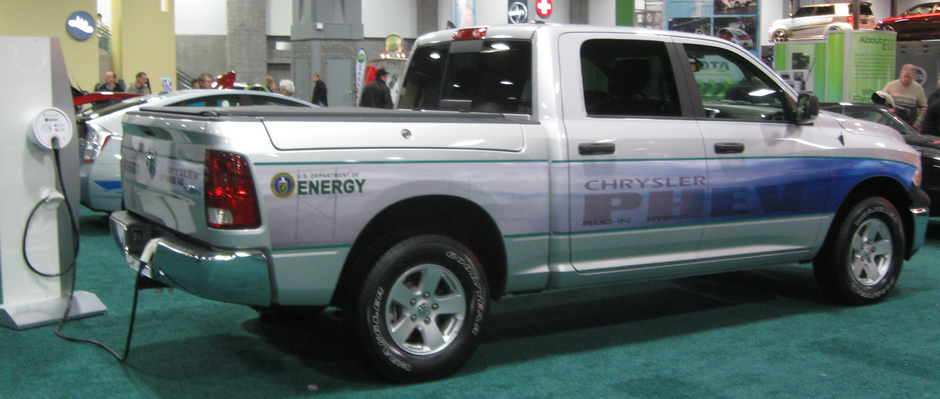 Ram Pickup plug-in hybrid photographed at the 2011 Washington (D.C.) Auto Show.